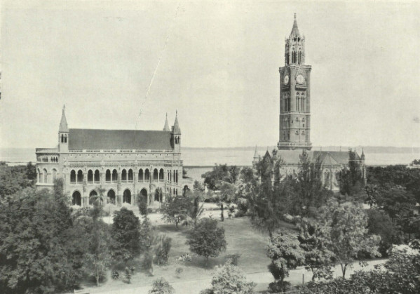 The University of Bombay Hall and Rajabai Tower. Both buildings designed by Sir Gilbert Scott. The tower is 280 ft. high. From India Illustrated magazine.